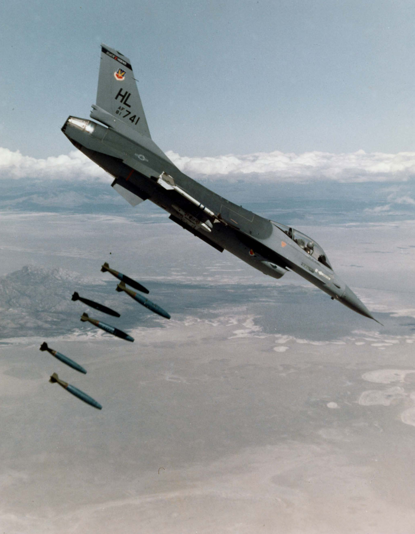 General Dynamics F-16A-15 (SN 81-0741)